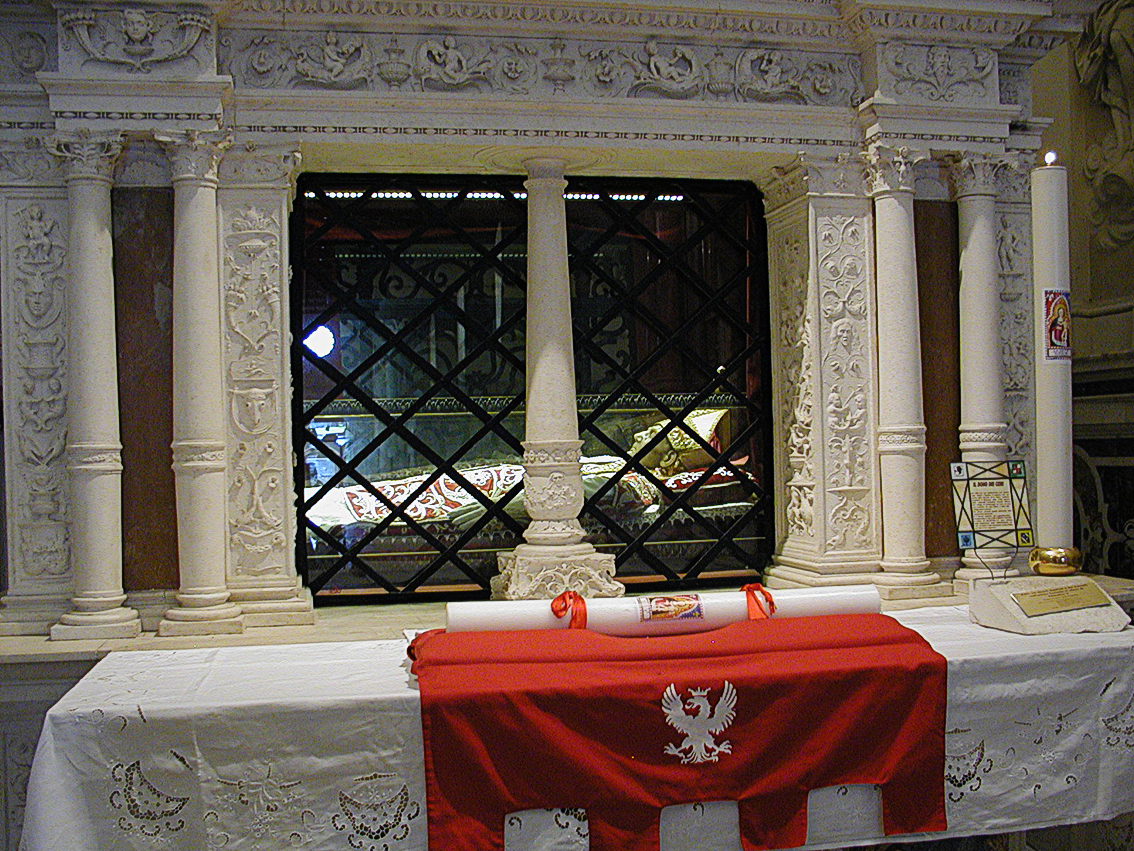 L'Aquila, Basilica di Santa Maria di Collemaggio. Mausoleum of Pope Celestine V by Girolamo da Vicenza (1517) in the north arm of the transept.